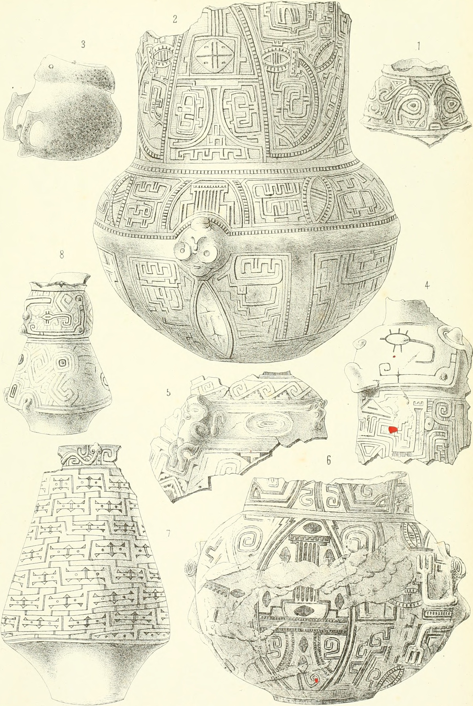 Title: Archivos do Museu Nacional Year: 1876-1935 (1870s) Authors: Museu Nacional (Brazil) Subjects: Science; Natural history -- Brazil; Ethnology -- Brazil Publisher: Rio de Janeiro : Imprensa Industrial Text Appearing Before Image: Archivos do Museu Nacional VoLVI: (St:ll, Text Appearing After Image: Igacabas de Aarajó